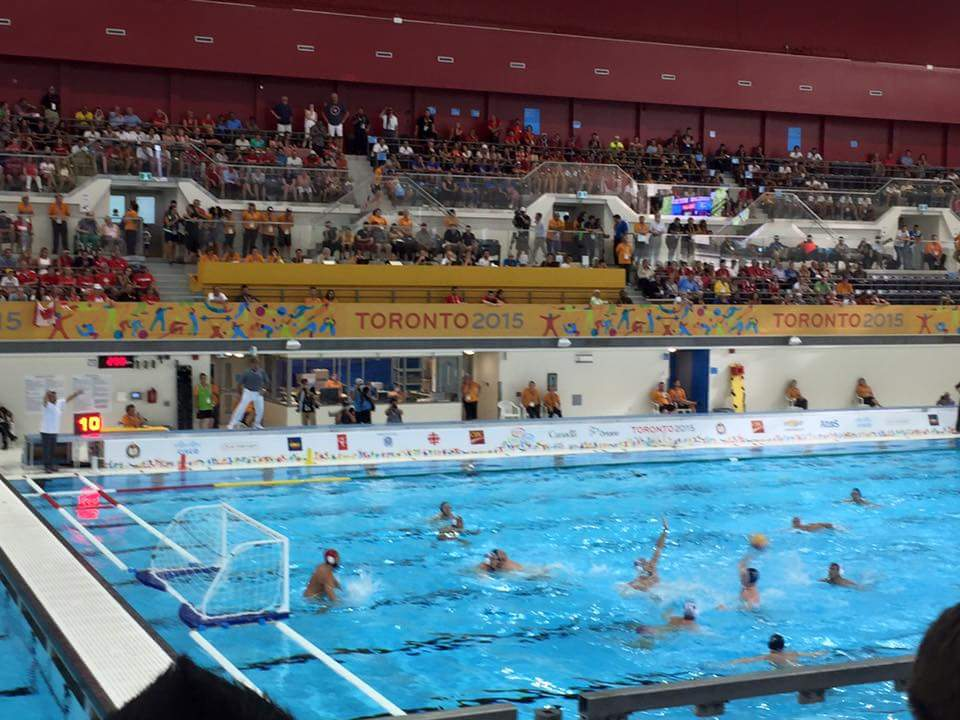 Water polo at the 2015 Pan American Games in Toronto, Ontario, Canada